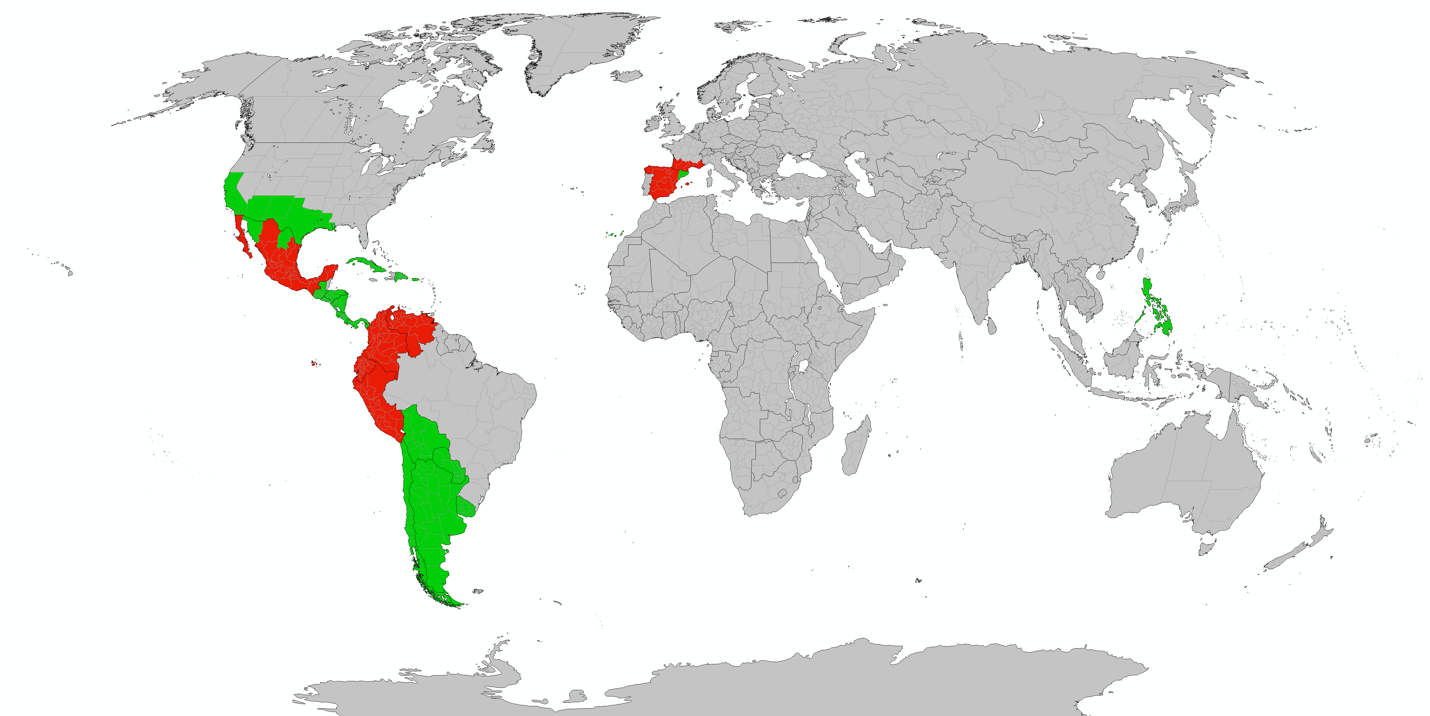 Spanish-style bullfighting around the world Bullfighting legal Bullfighting banned, which used to be traditionally practiced Note: Some municipalities have banned bullfighting in countries and regions where it is otherwise legal.